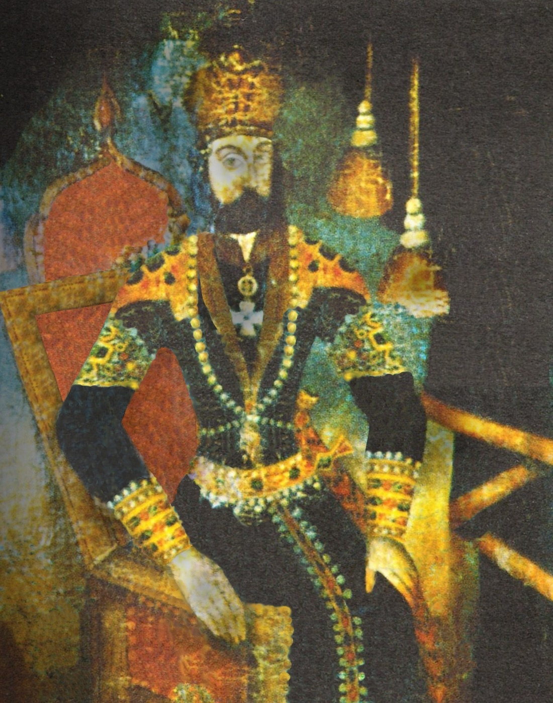 George XI, king of Kartli, Georgia